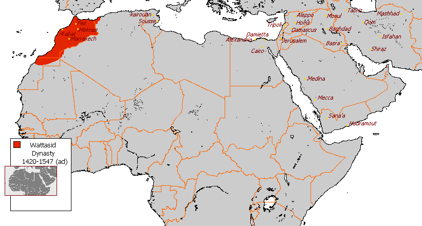 Lands under the Wattasid rule 1420-1547